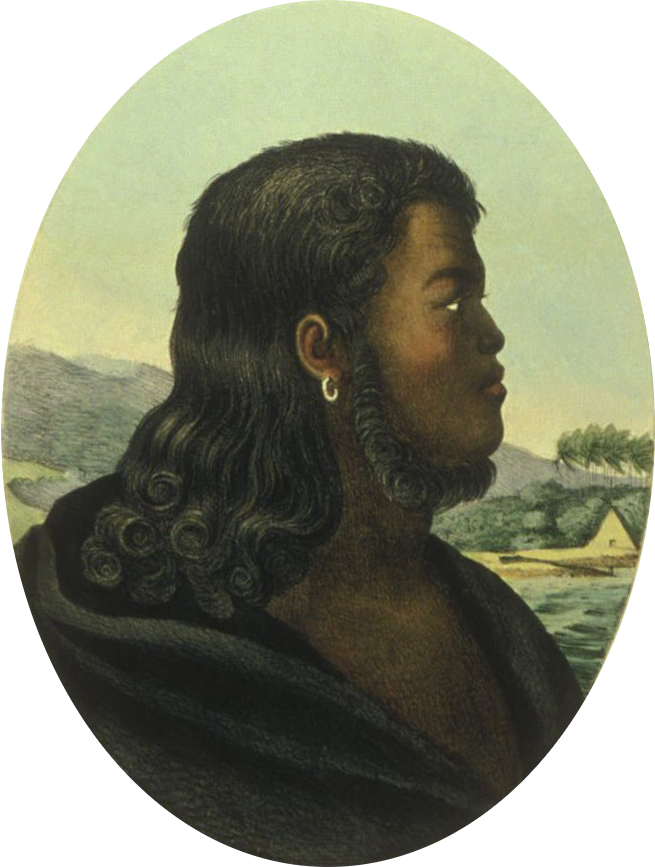 Taymotou, frère de la Reine Kaahumanu by Louis Choris, the artist aboard the Russian ship Rurick, which visited Hawai'i in 1816. Kalanimoku (c. 1768–1827) was a military and civil leader of the Kingdom of Hawaii. He served as battle commander during the conquest, and then as a role similar to Prime Minister. He took the name "Billy Pitt" after the Prime Minister of Great Britan at the time.